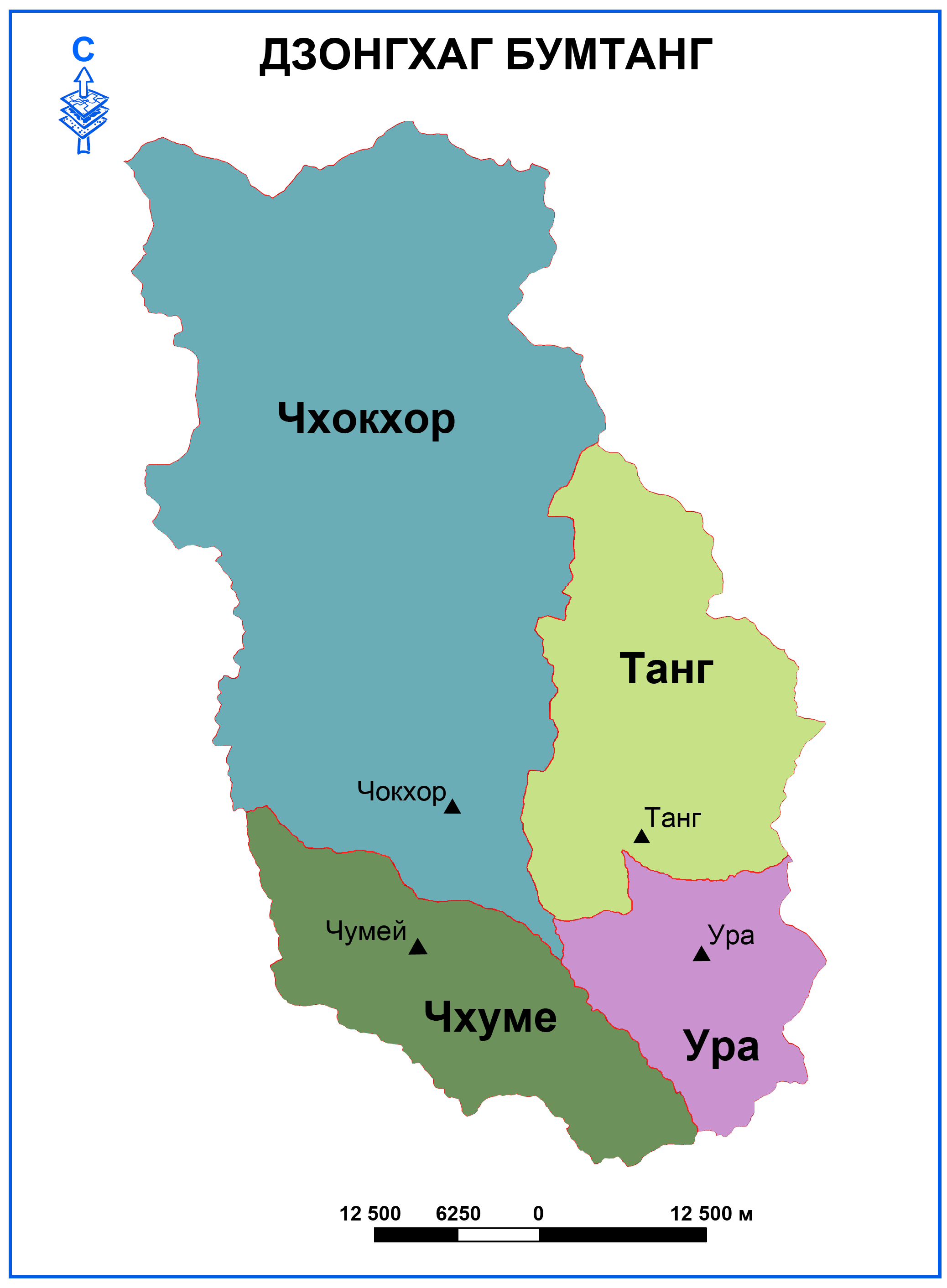 Bumtang District map, Bhutan, 2011